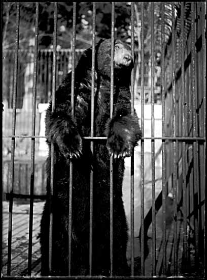 Bear in a cage in the Stanley Park Zoo